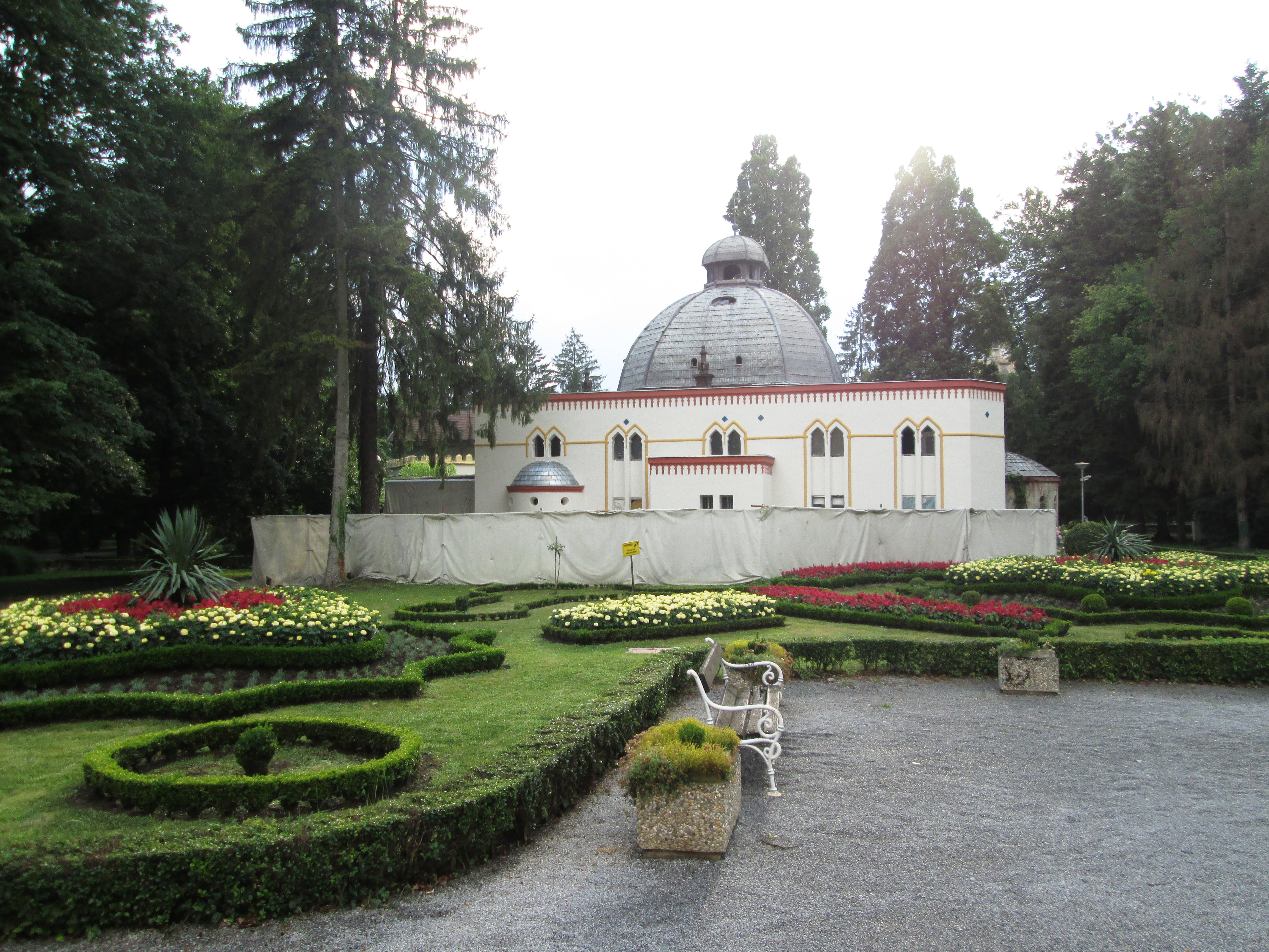 Daruvar Spa in Croatia